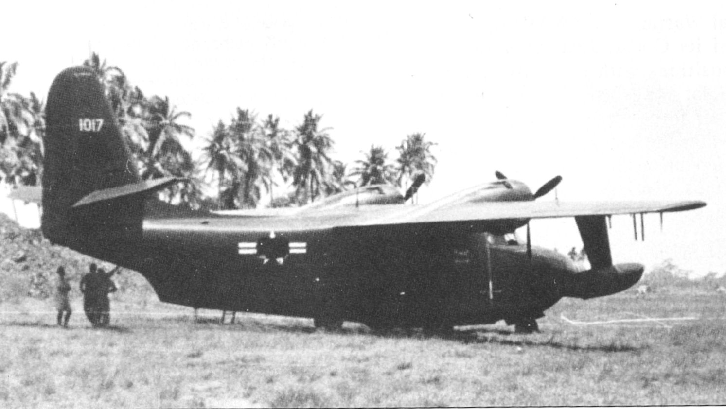 Grumman SA-16A Albatross 51-017, assigned to the 581st Air Resupply Group shown in the Philippines